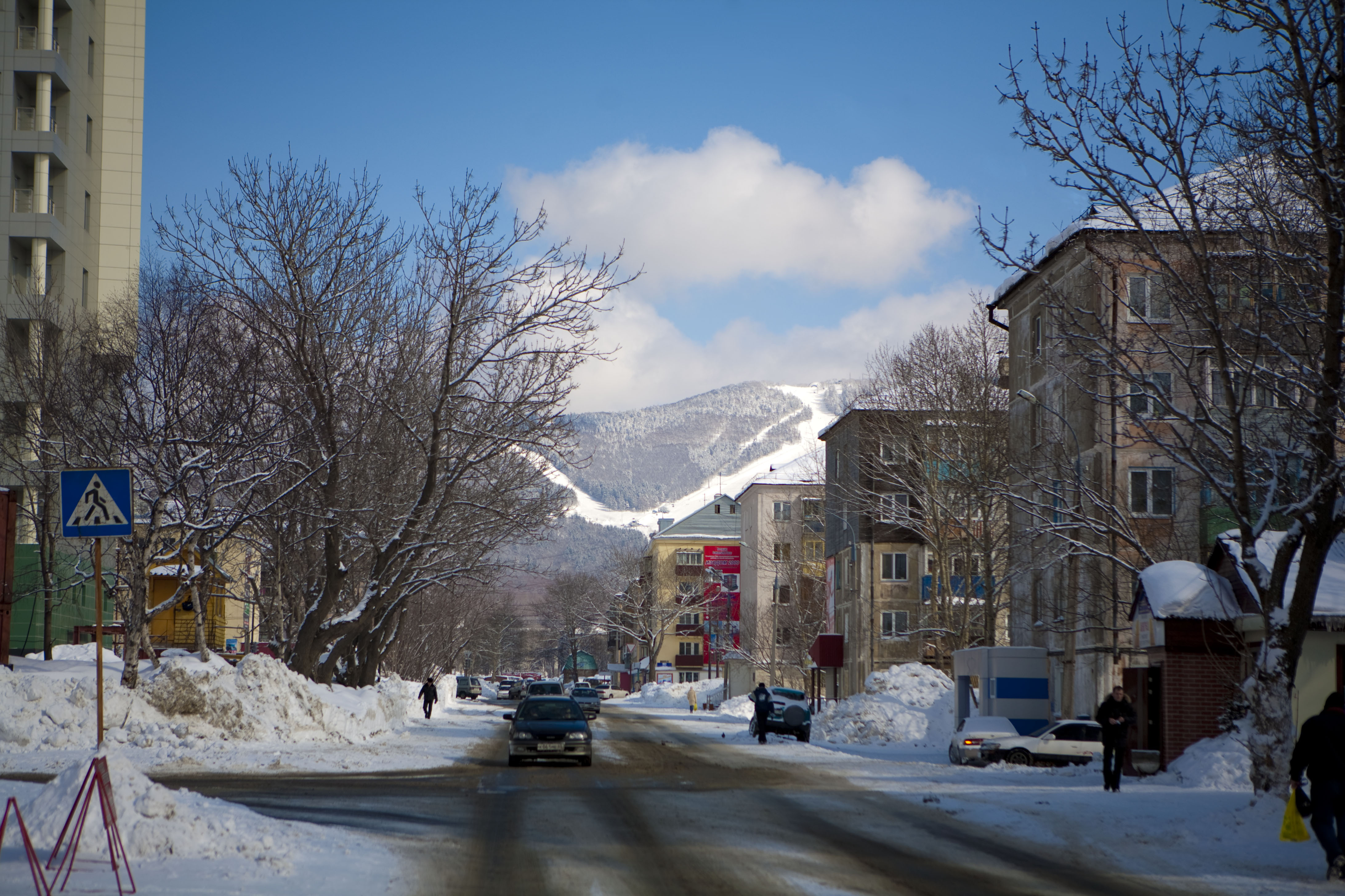 Photo by Brian Tibbets, ( February 2009